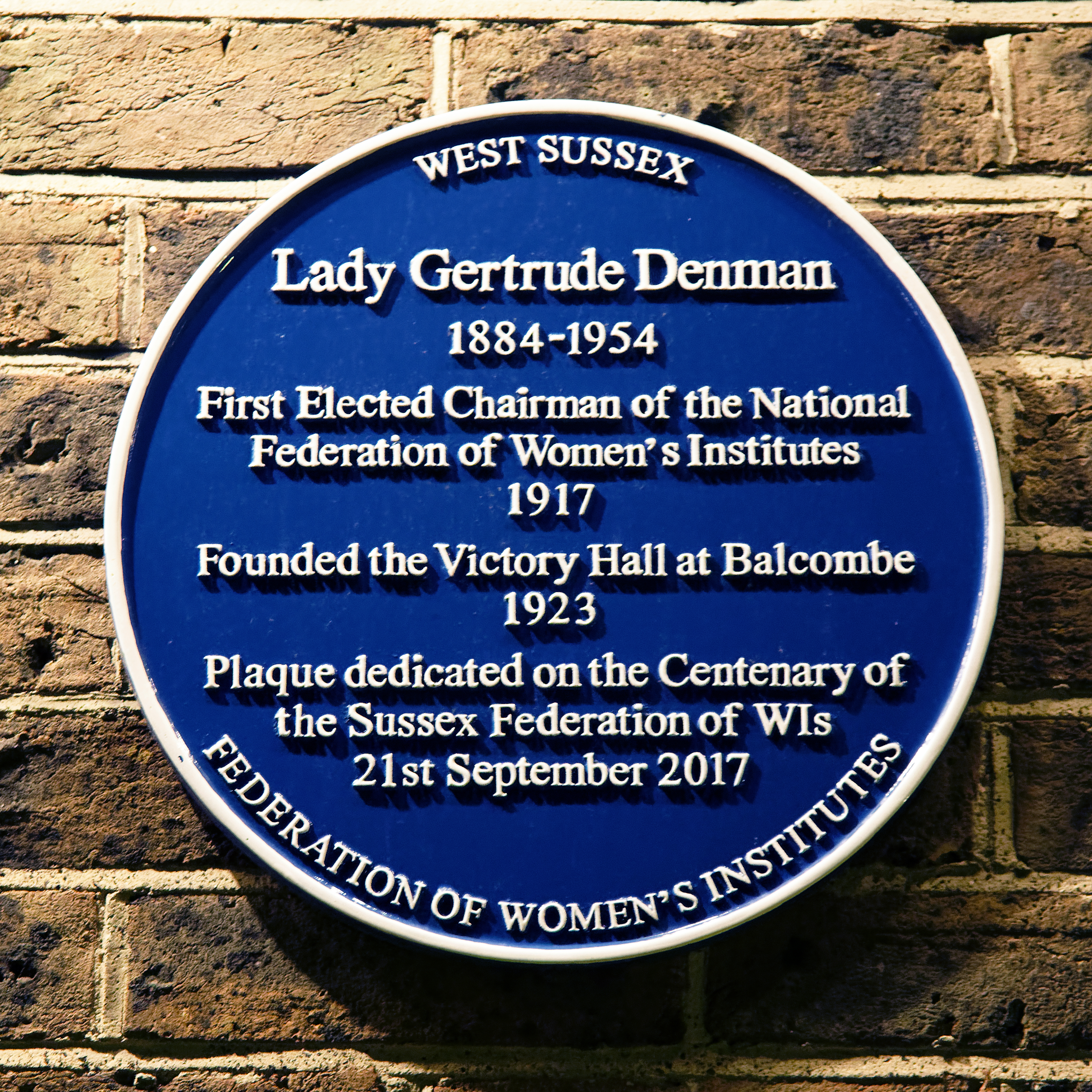 A plaque dedicated to Gertrude Denman at The Victory Hall, in Balcombe, West Sussex, England.The Victory Hall, built in 1923, is a memorial to Balcombe men who died in the First World War. It was funded by public subscription, and by Gertrude Denman who lived at Balcombe. Lady Denman encouraged and influenced the planning of the hall and commissioned the artist Neville Lytton to provide the hall's murals. The Victory Hall is a community facility for functions and village activities, and part of the premises is run by The Balcombe Club as a bar, restaurant and music venue.Mobile device view: Wikimedia (as at 2019) makes it difficult to immediately view photo groups related to this image. To see its most relevant allied photos, click on Balcombe, and this uploader's West Sussex buildings photos. You can add a beta click-through 'categories' button to the very bottom of photo-pages you view by going to settings... three-bar icon top left.Desktop view: Wikimedia (as at 2019) makes it difficult to immediately view the helpful category links where you can find images related to this one in a variety of ways; for these go to the very bottom of the page.This image is one of a series of date and/or subject allied consecutive photographs kept in progression or location by file name number and/or time marking.Camera: Canon EOS 6D Mark II with Canon EF 24-105mm F4L IS USM lens.Software: RAW file lens-corrected, optimized and converted with DxO PhotoLab 2 Elite, and further optimized with Adobe Photoshop CS2.